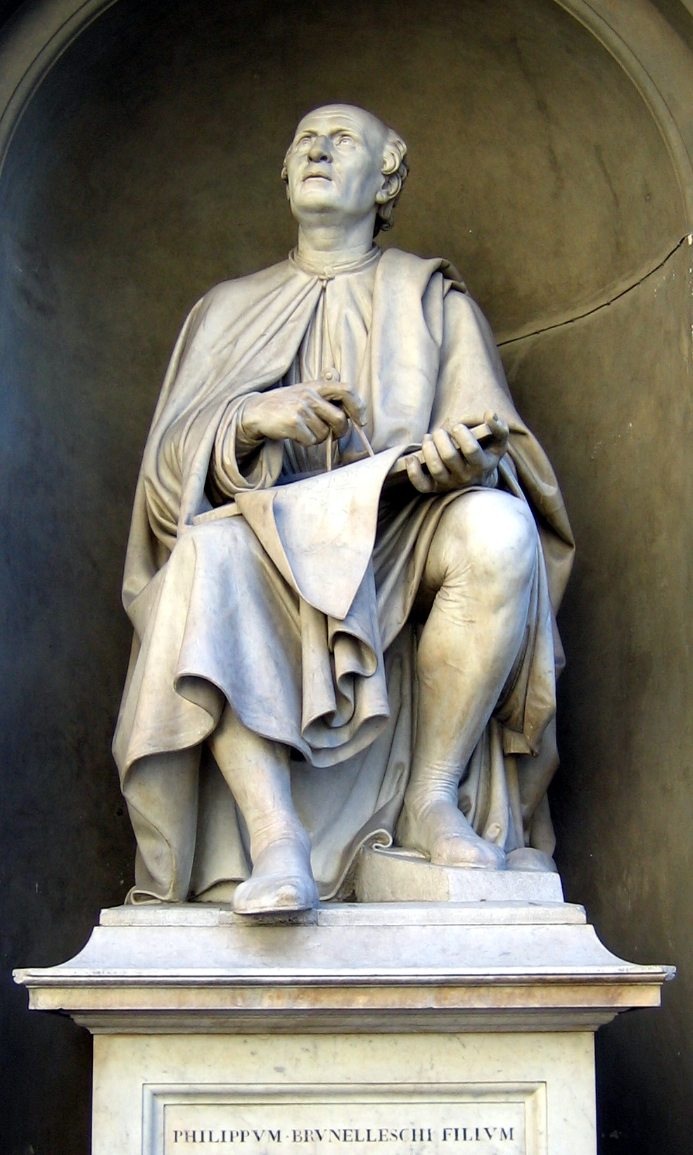 Description: Statue of Filippo Brunelleschi (italian Architect) near the "Duomo Santa Maria del Fiore" looking up to the Dome. Time: 2004 License: Picture made by myself